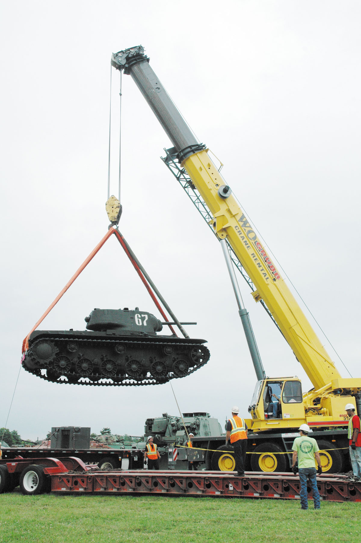 This KV-1 tank is being loaded for shipment from the Ordnance Museum grounds to Fort Lee, Va., during Phase 1 of the museum relocation. The Kliment Voroshilov tanks were a series of Soviet heavy tanks, named after the Soviet defense commissar and politician Kliment Voroshilov. The Ordnance Museum has been in possession of the tank since 1942, according to Dr. Joseph Rainer, museum director. "The KV-1 arrived from the Soviet Union in a sort of reverse land lease program," Rainer said. "We sent millions of tons of equipment to the Soviet Union to help fight off the German invaders. There were two main routes into Russia; the port of Archangelsk in the north and from the south through Persia [Iran]. Our KV-1 arrived in a shipment from Archangelsk in October 1942."